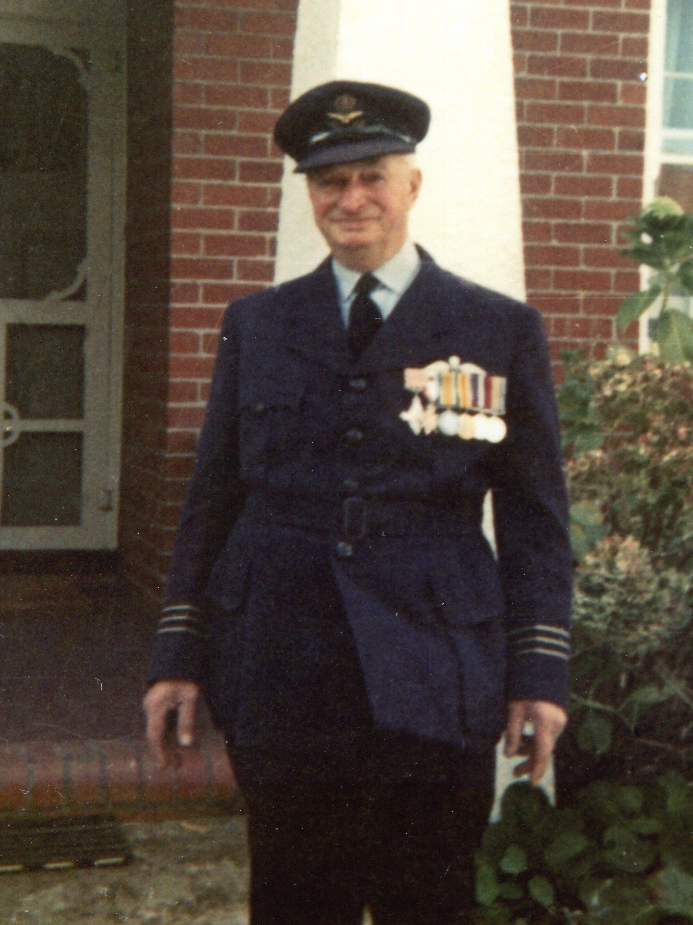 Wing Commander Frank Neale in uniform, Anzac Day c.1976